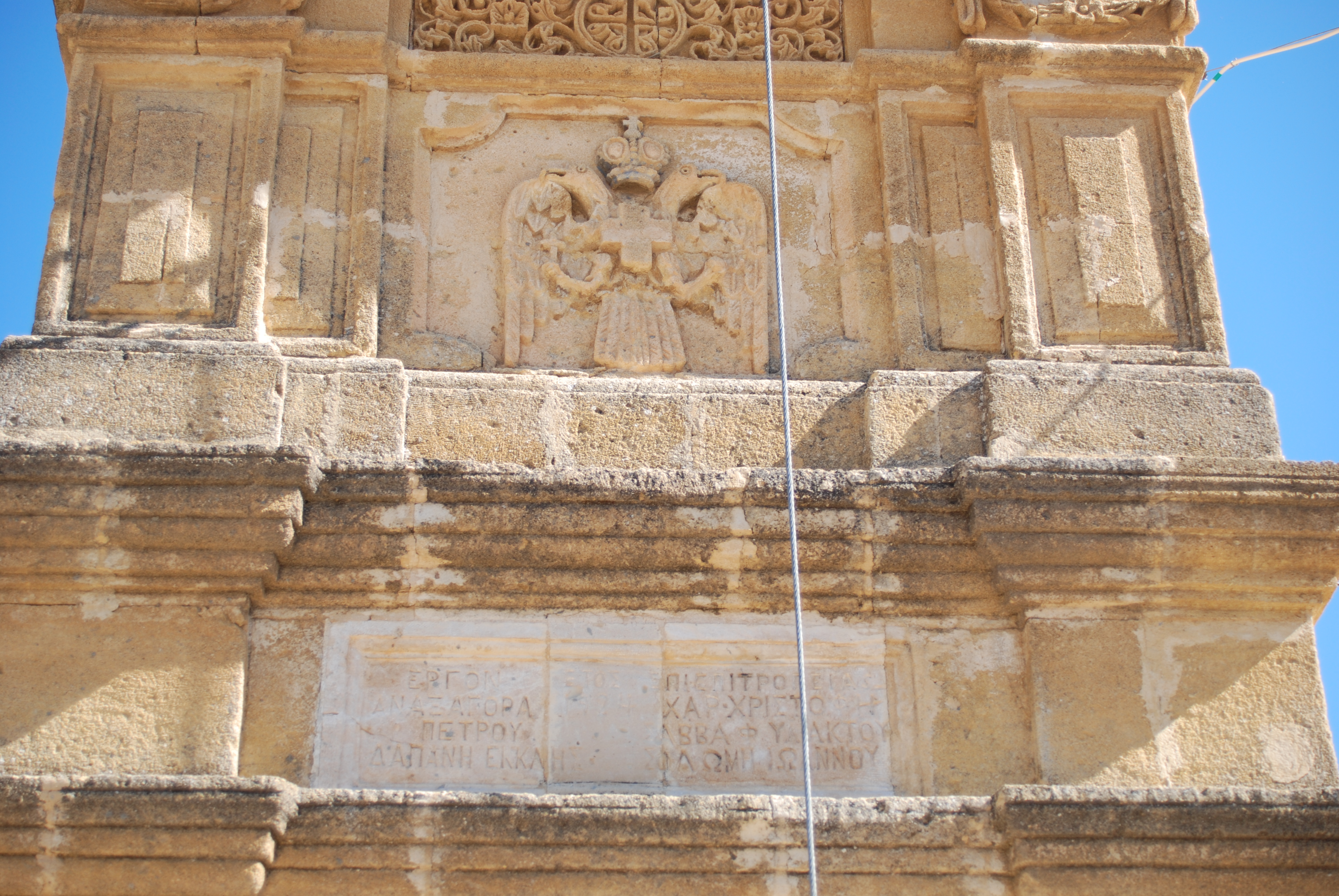 Church of Ioakim and Anna (Kaliana)